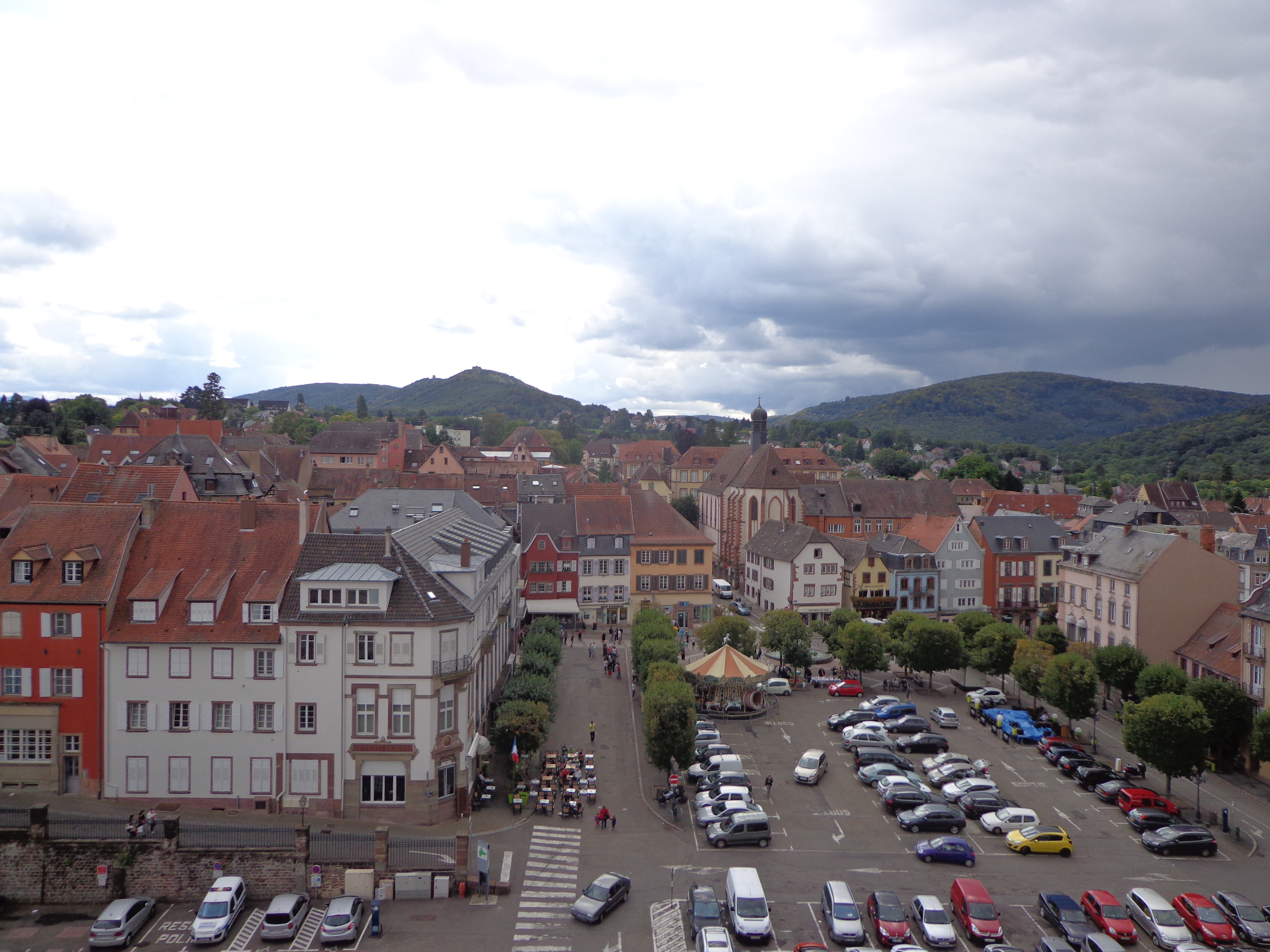 Saverne, Alsace, seen from the roof of Rohan Castle